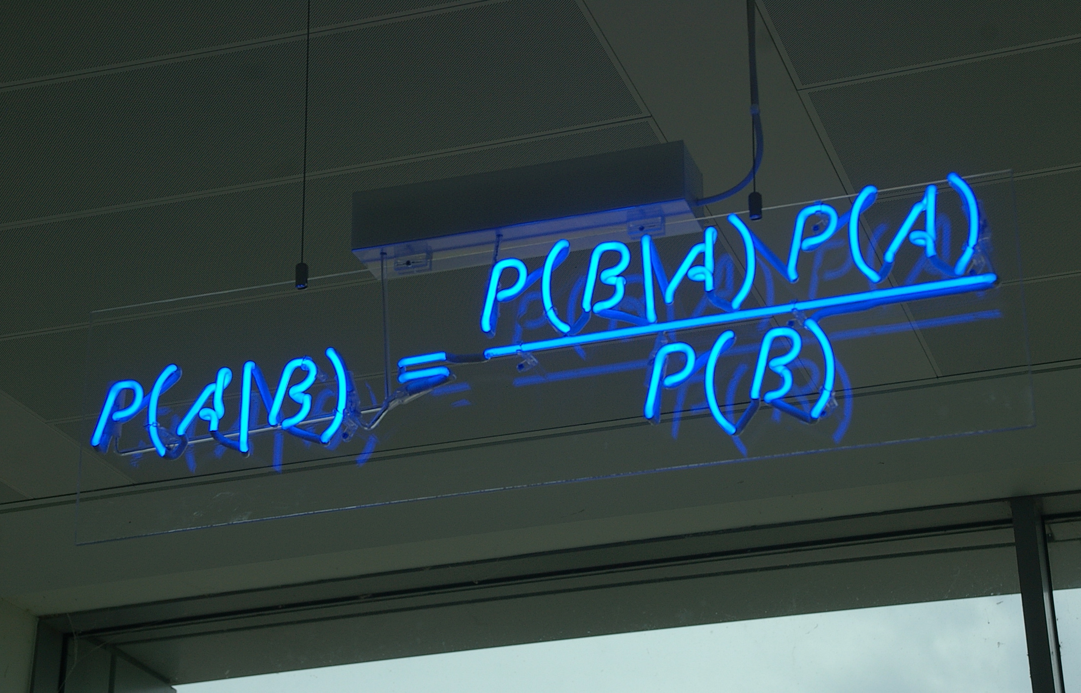 Bayes' theorem spelt out in blue neon at the offices of Autonomy in Cambridge.